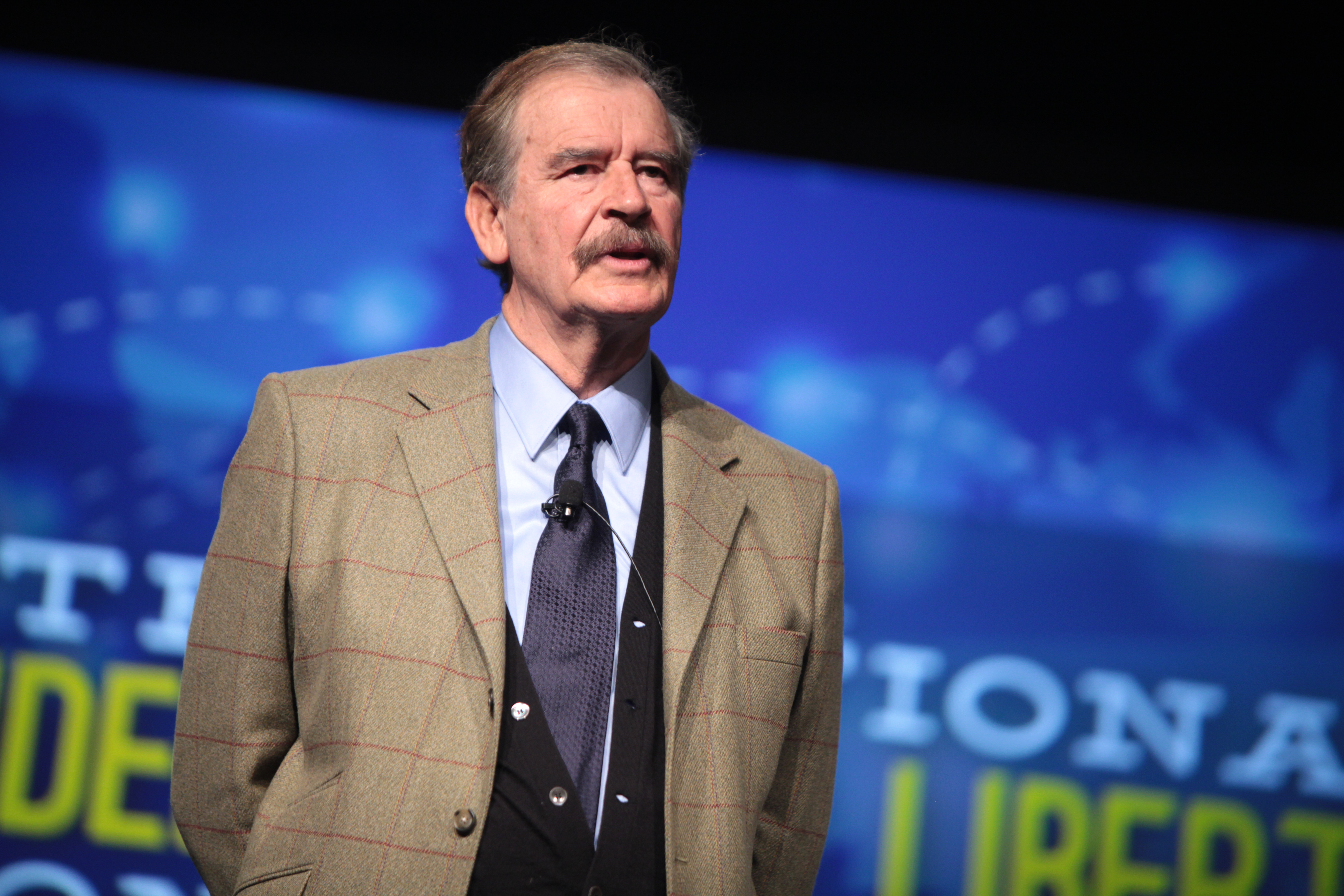 Former President of Mexico Vicente Fox speaking in Washington, D.C.